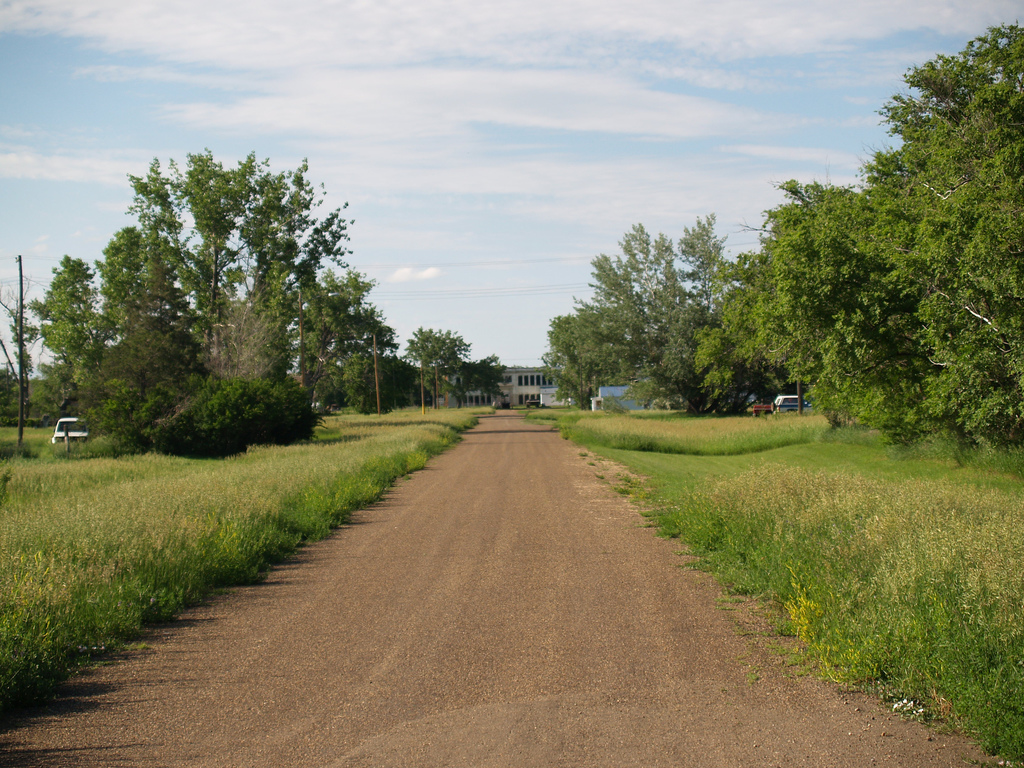 Haynes, North Dakota. From .